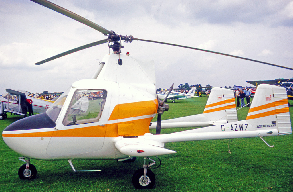 McCulloch J-2 Gyrocopter G-AZWZ at Sywell Aerodrome in 1973.